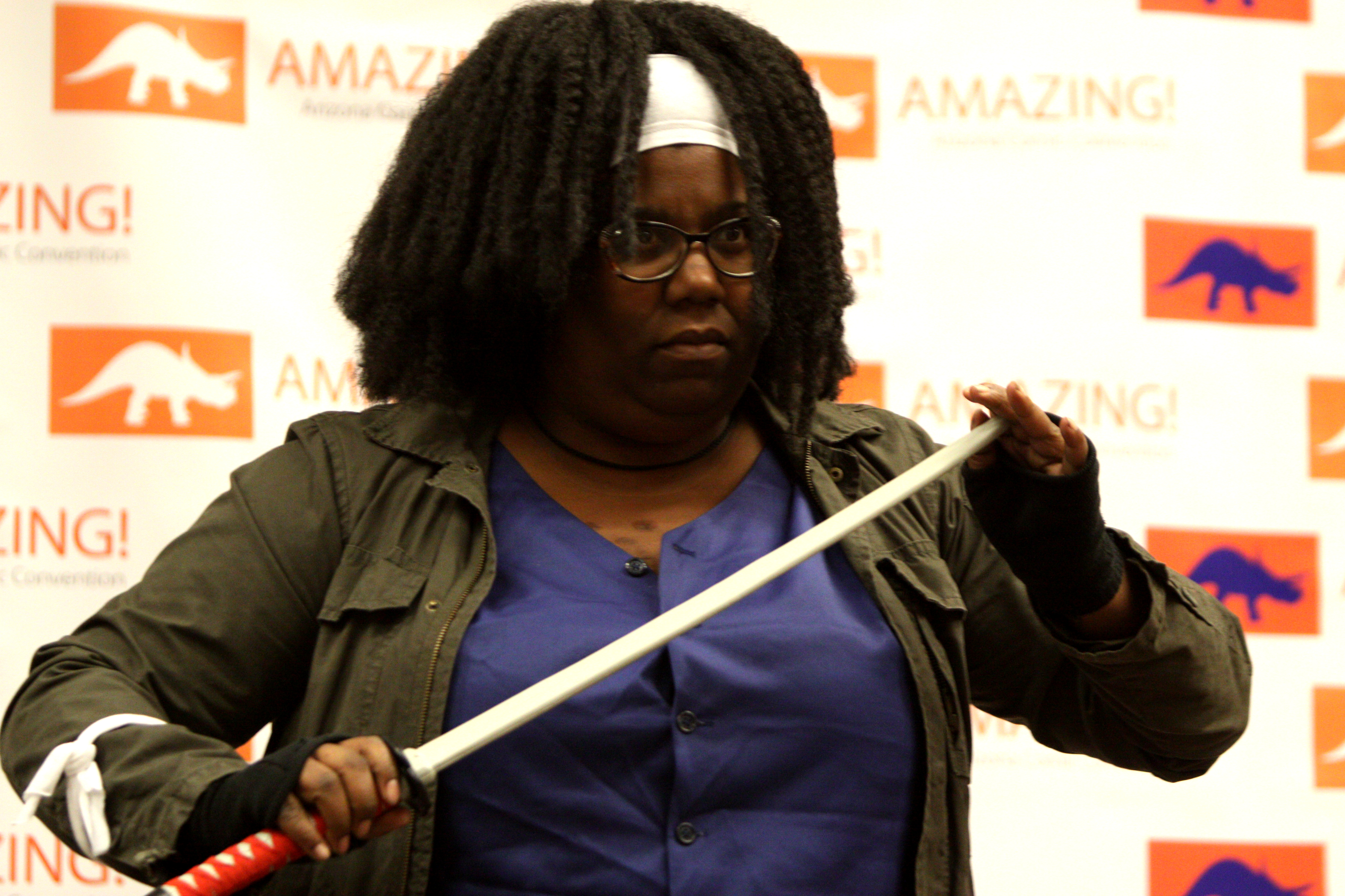 Michonne cosplayer at the Amazing Arizona Comic Con at the Phoenix Convention Center in Phoenix, Arizona.